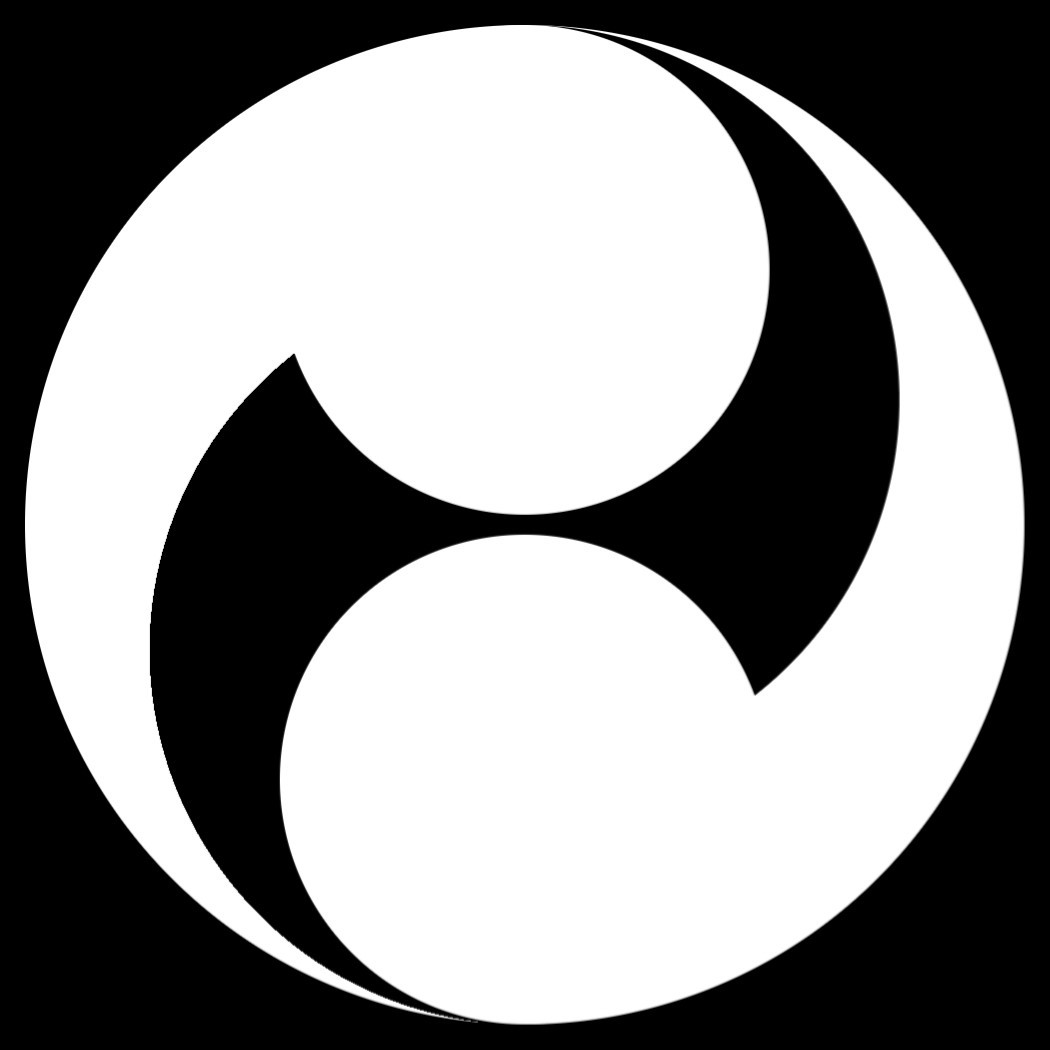 Twofold Tomoe, left turning